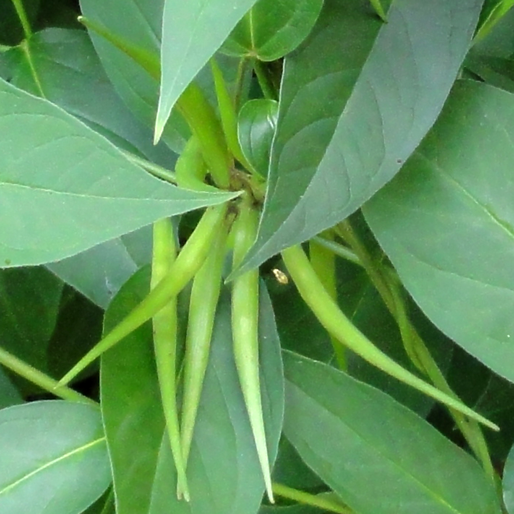 Vincetoxicum rossicum (pale swallow-wort), at the Skaneateles Conservation Area, Onondaga County, New York.